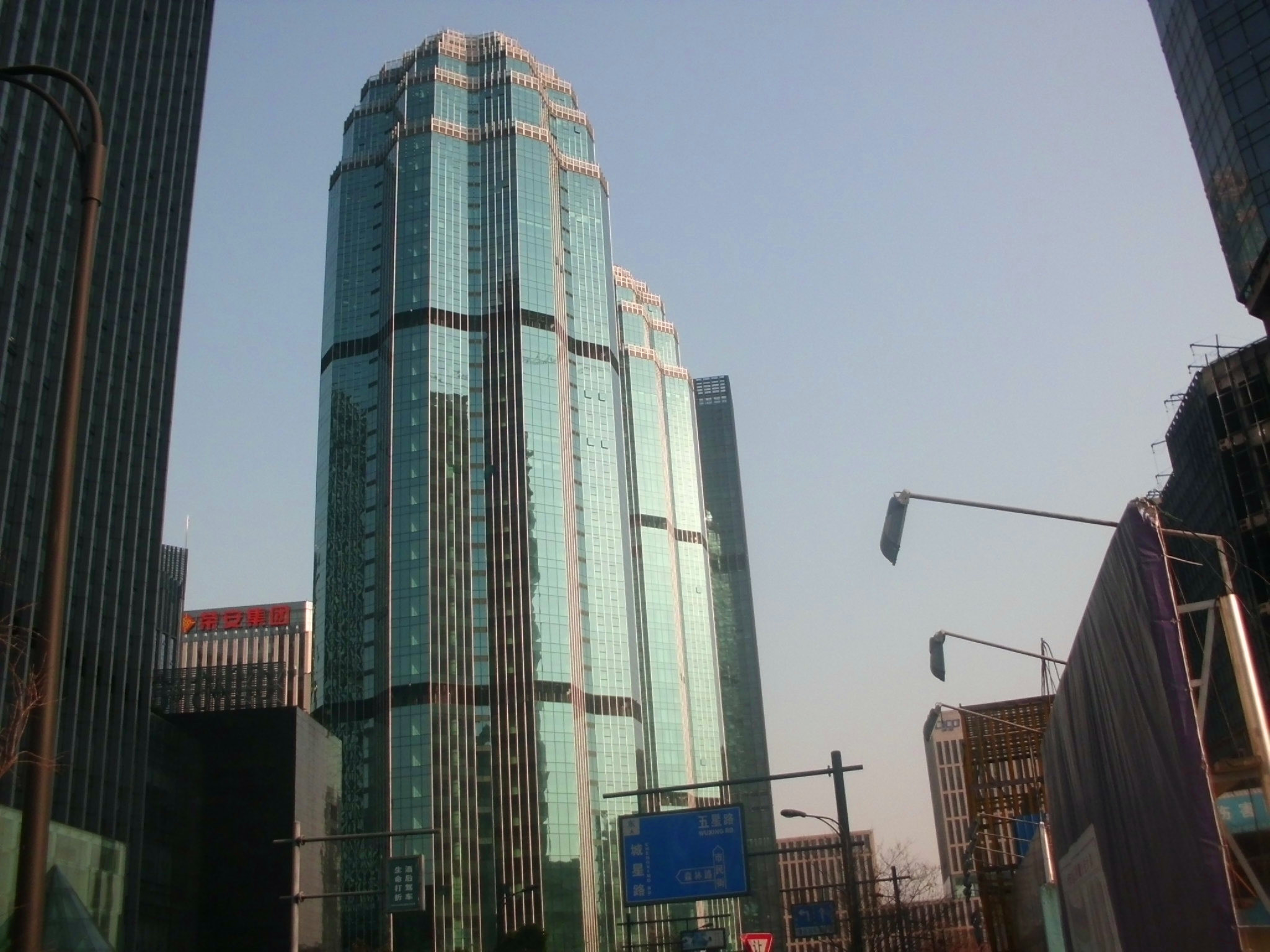 中华航空大厦